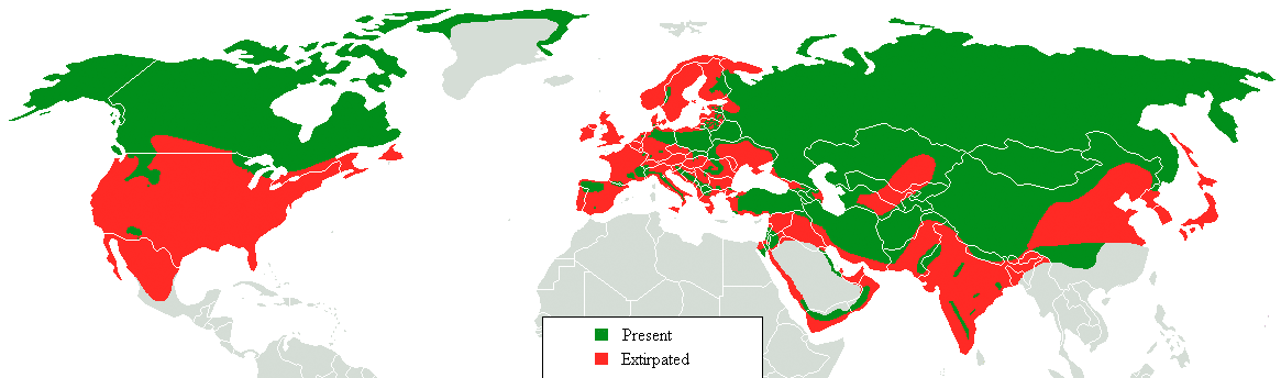 Past and present range of Canis lupus with subnational borders. NOTE FOR EDITORS: Use Microsoft paint for range modifications.